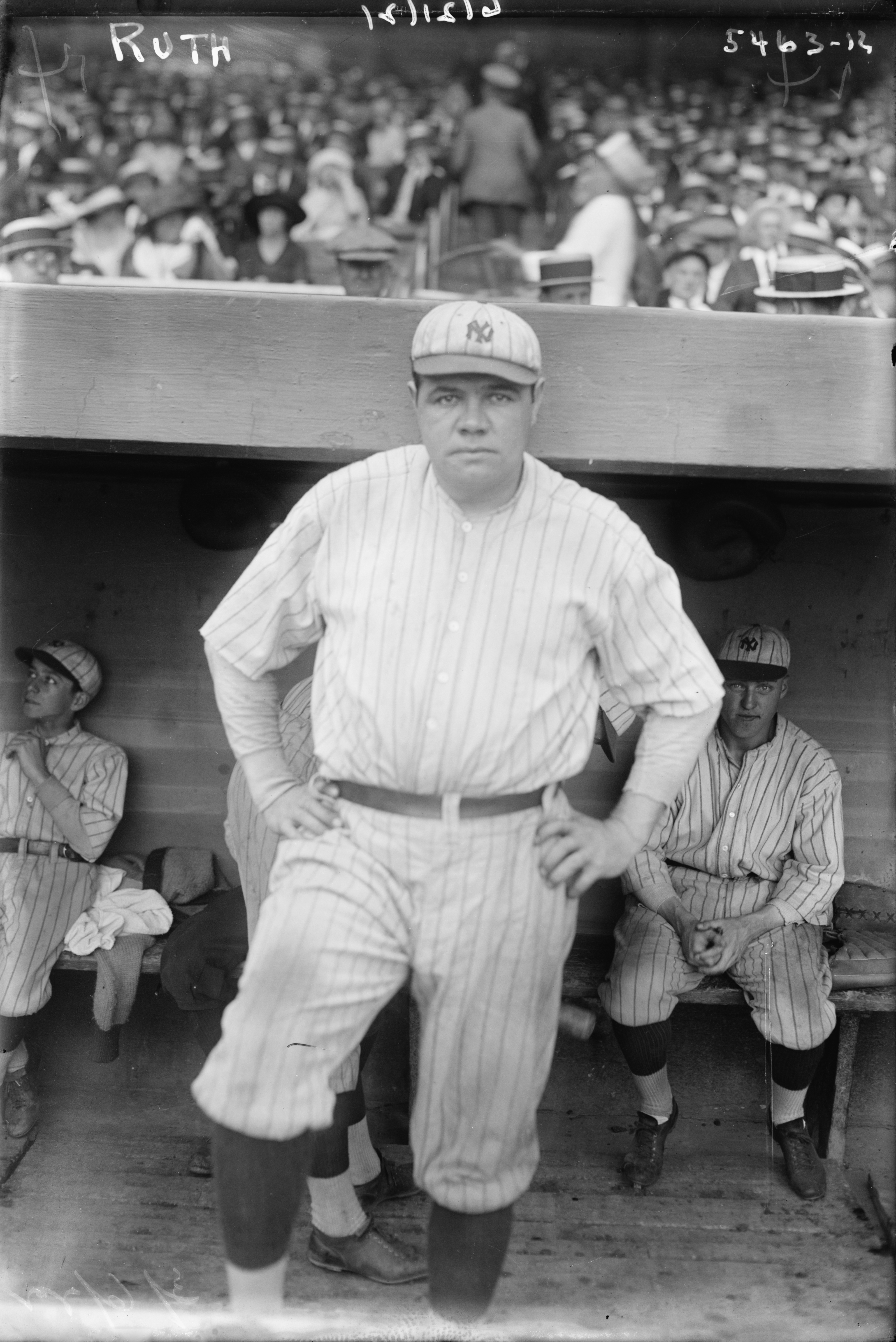 American baseball player Babe Ruth in 1921